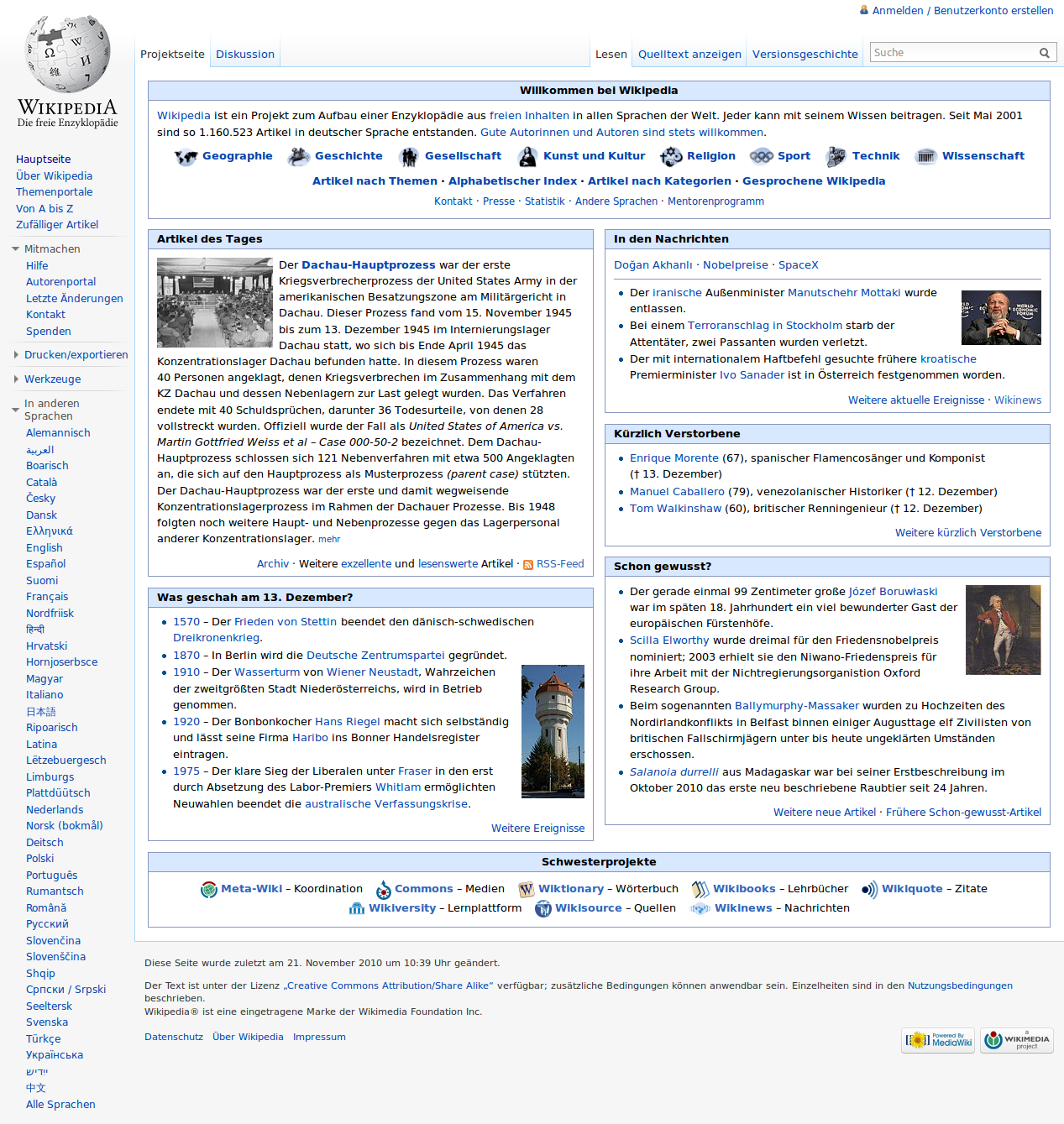 Screenshot of the latest version of the German Wikipedia's main page